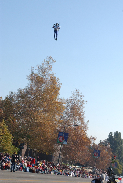 Rocketman Dan Schlund flying the Rocketbelt for Powerhouse Productions in the 118 Tournamanet of Roses Parade January 1, 2007.